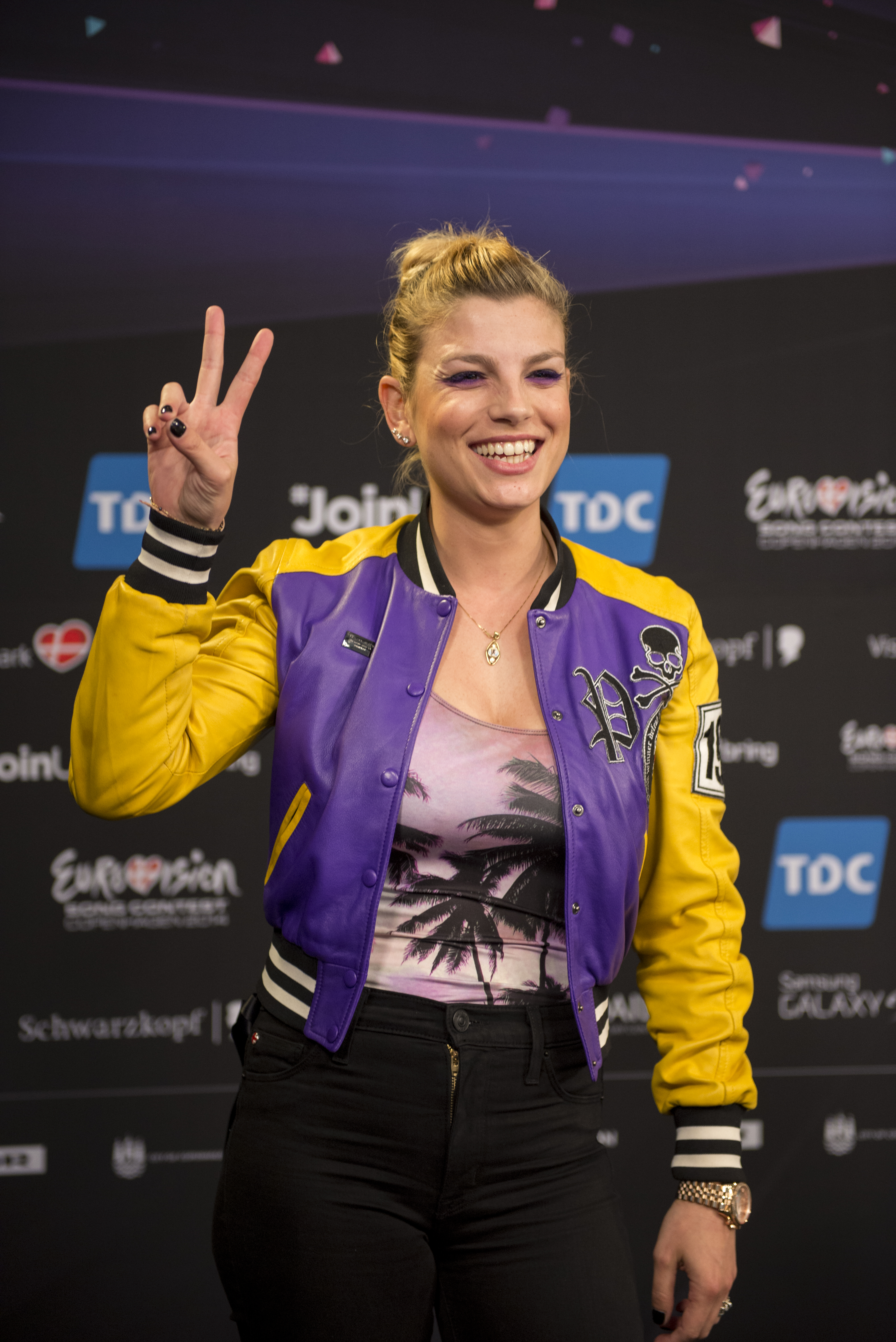 Emma Marrone at a Meet & Greet during the Eurovision Song Contest 2014 Copenhagen. (Help translate this text)